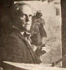 American artist Ira D. Gerald Cassidy from page 2925 of the August 27, 1920 Motion Picture News. The caption noted that Cassidy, who was working on the Ritchey Litho Corp. staff, had been awarded the grand prize and gold medal at the Art Exhibition of Painting at the San Diego County Fair.